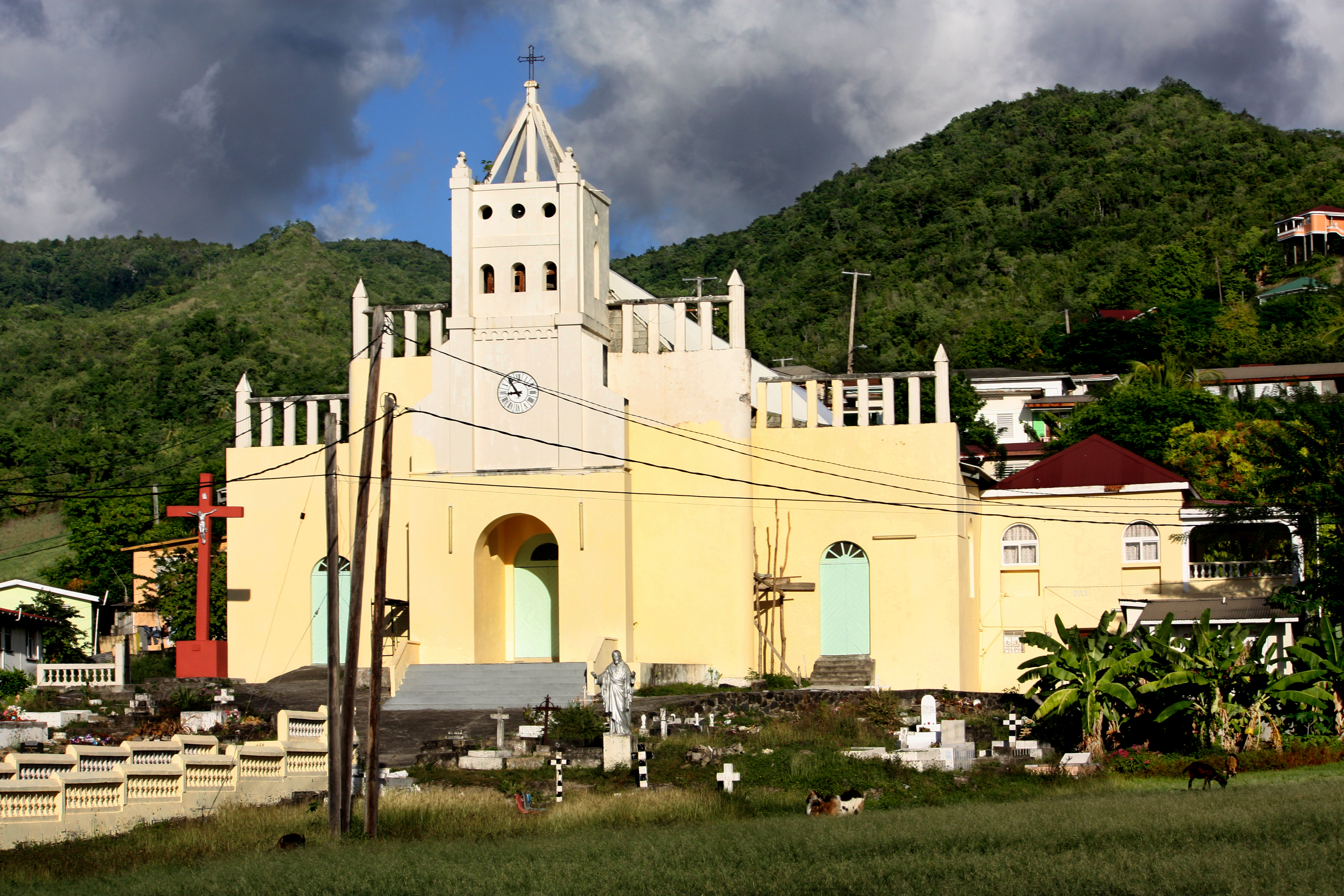 Saint Joseph Parish Church. Saint Joseph, Dominica. Built in the late 19th century, dedicated to Saint Gerard.